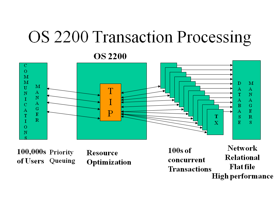 Unisys OS 2200 transaction processing diagram for use in article.